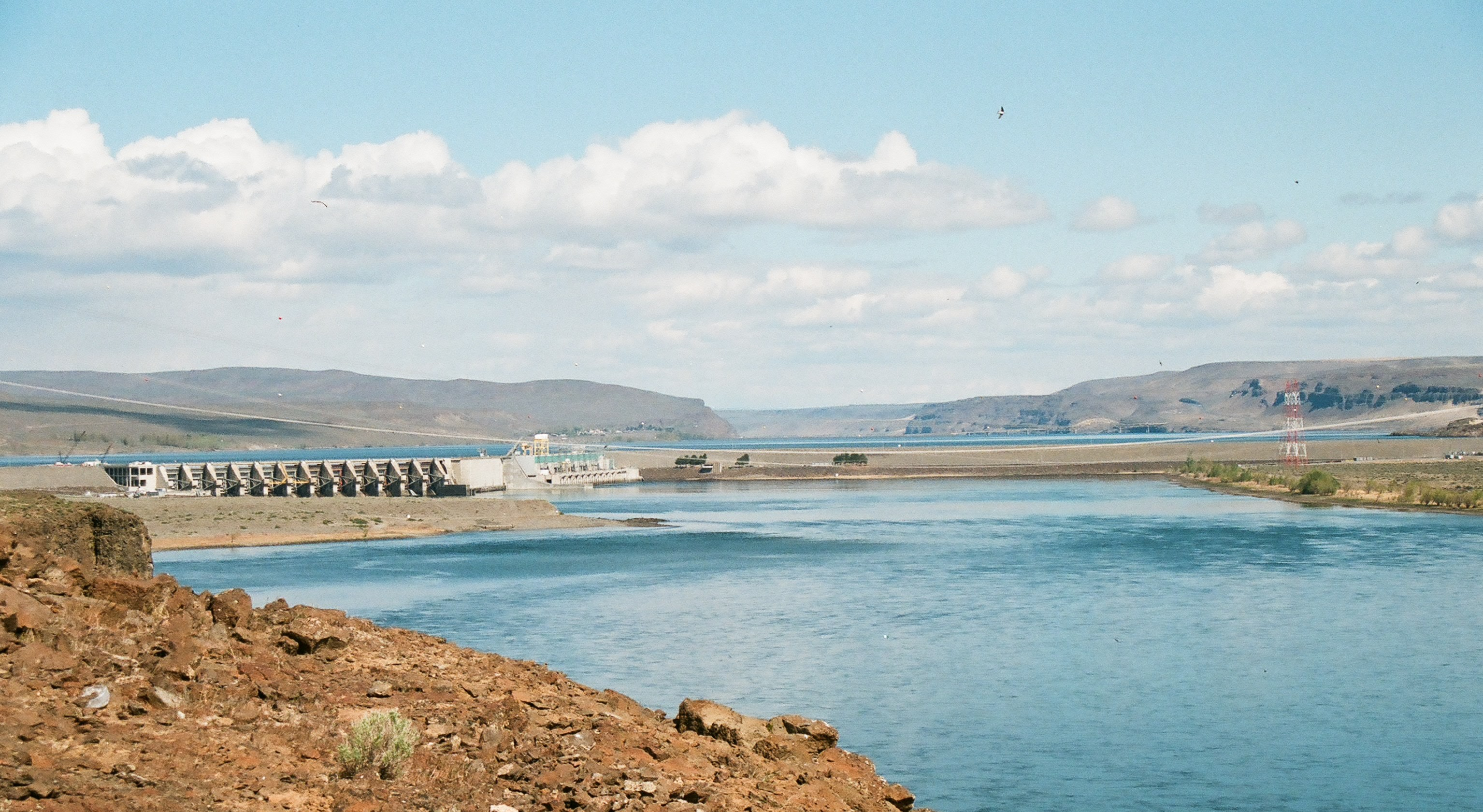 Wanapum Dam photo taken from downstream in late April 2008.